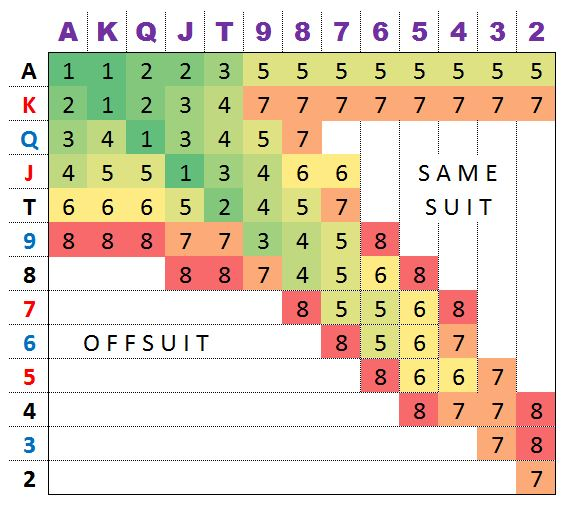 An update to the table previously on Texas_hold_%27em_starting_hands - this one with green-to-red coloring for easier memorization